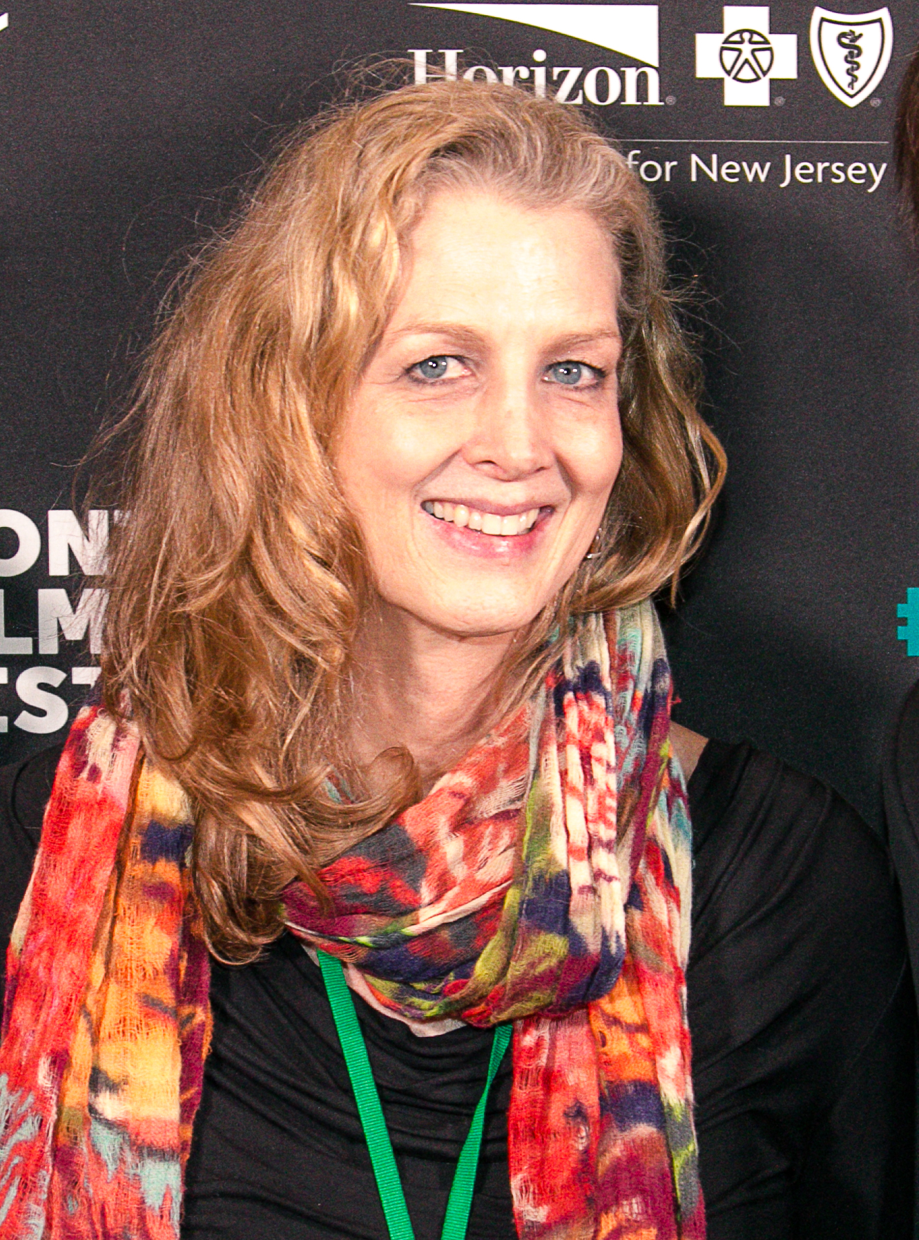 photo by "Heather Martino / Montclair Film"